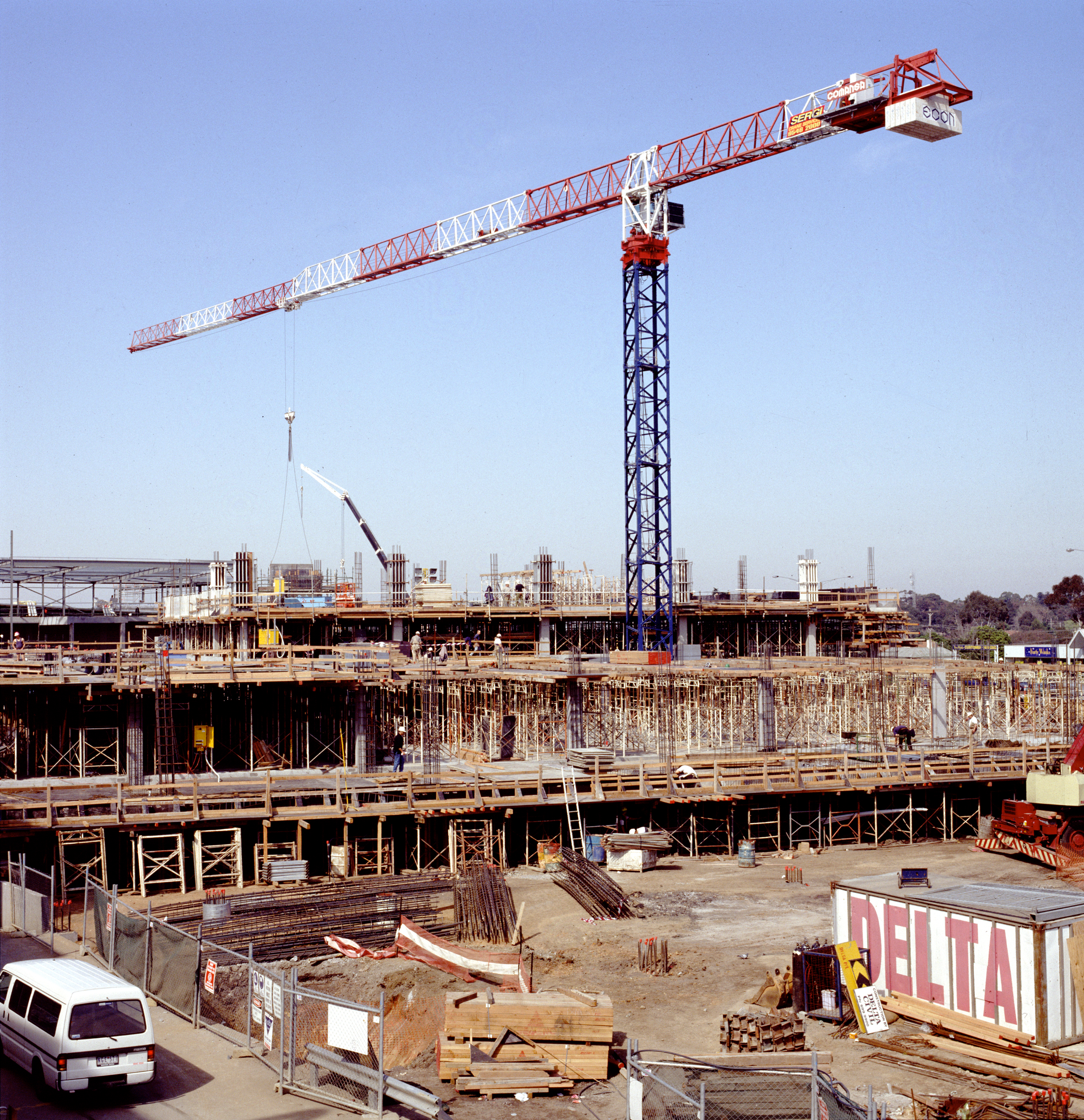 Construction site of the new Southland shopping complex. Photo credit: Tracey Nicholls